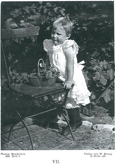 Max Allihn: Kind mit Blumenkorb (1894)